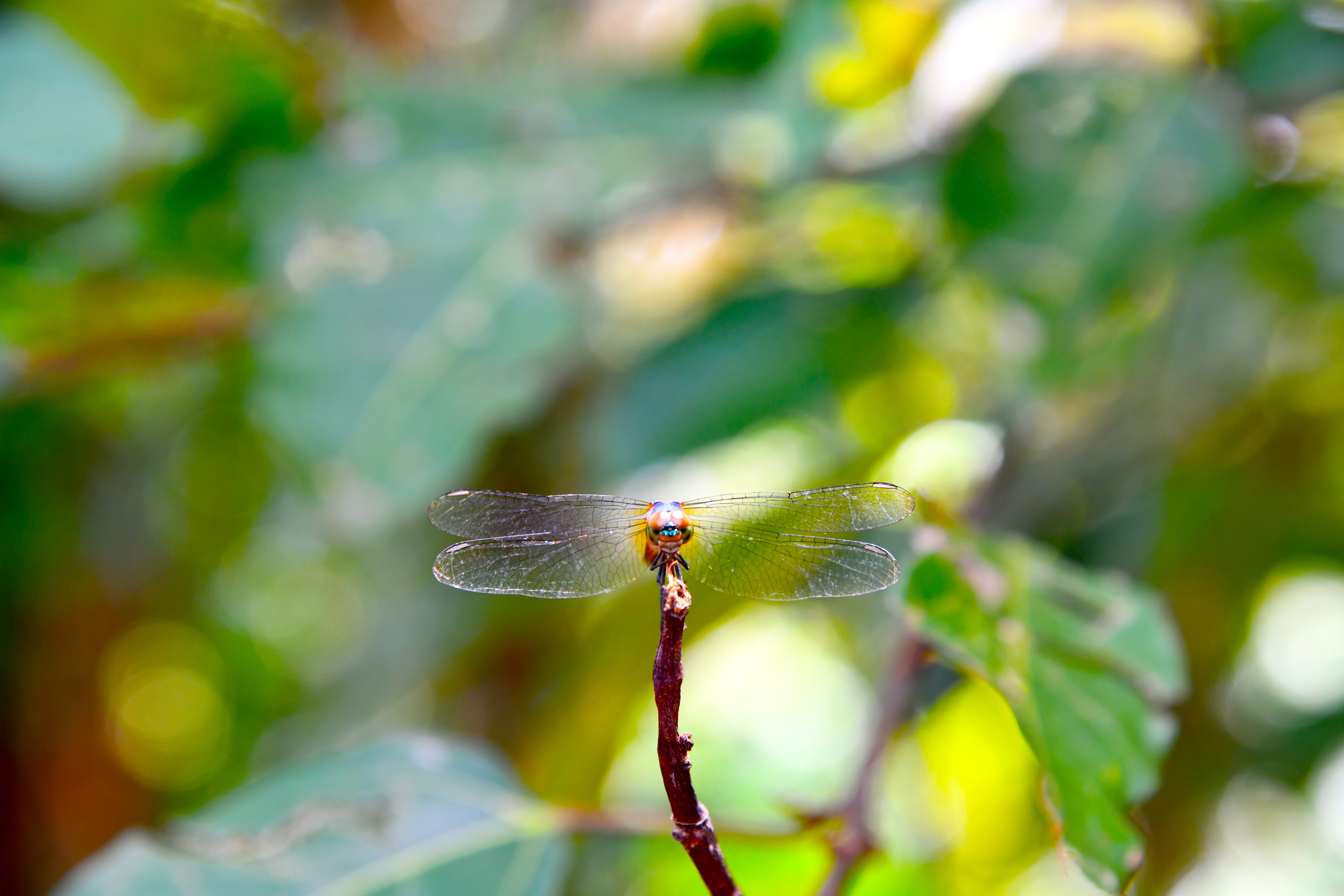 อุทยานแห่งชาติภูลังกา